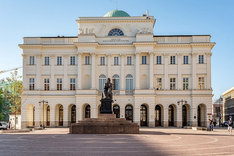 Warszawa, ul. Nowy Świat 72-74